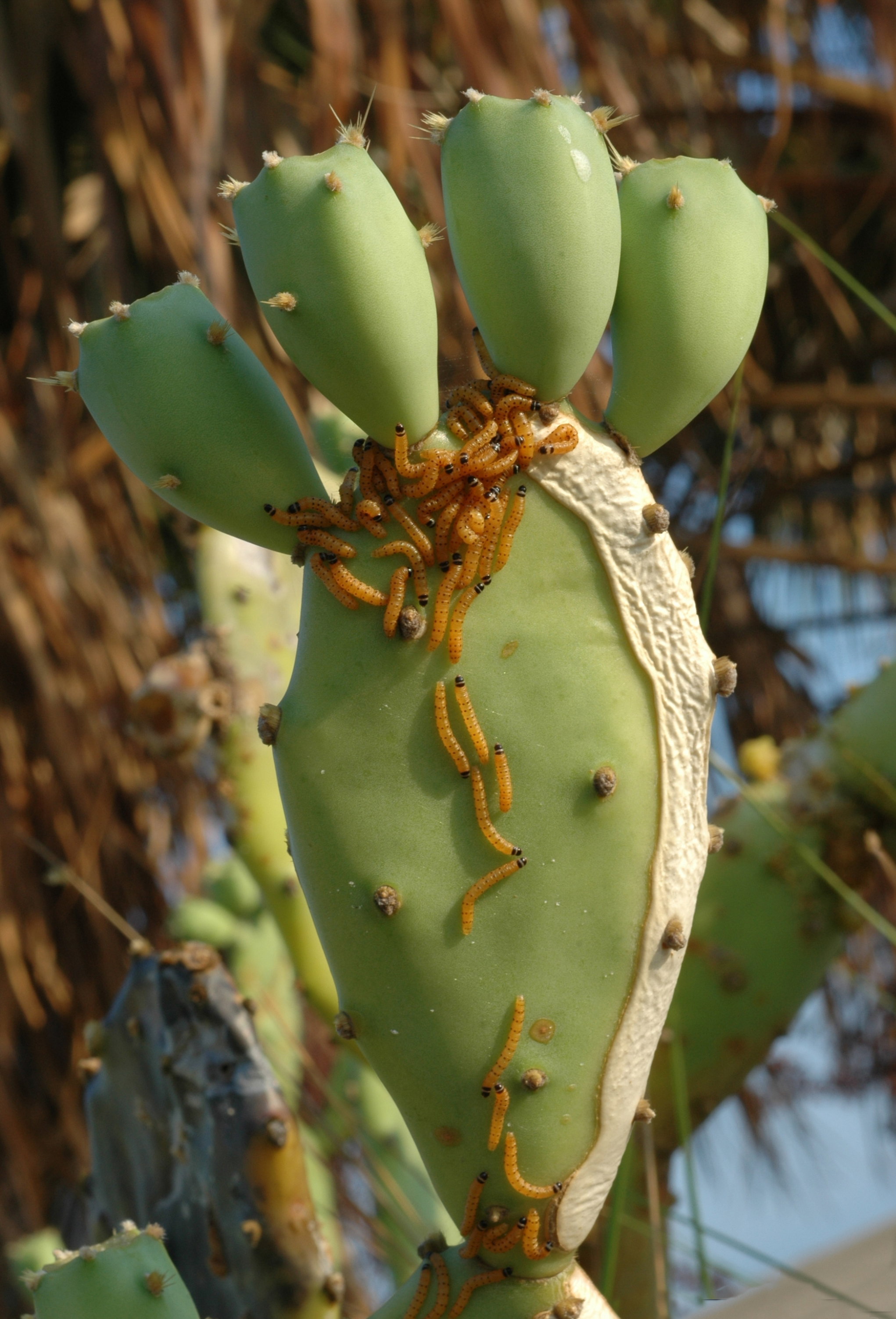 Larvae eating on an Opuntia Cacti